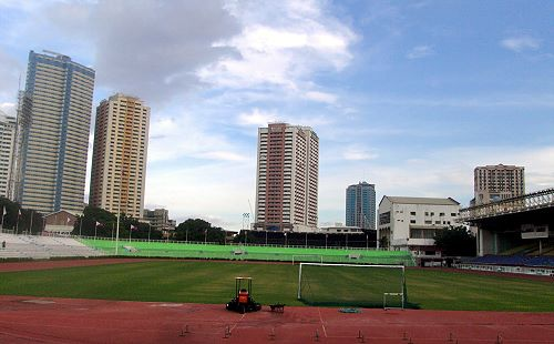 Rizal Memorial Track and Football Stadium